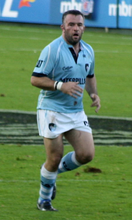 Welsh rugby union player Mefin Davies playing for Leicester Tigers away to Bath in the 2009 Guinness Premiership.